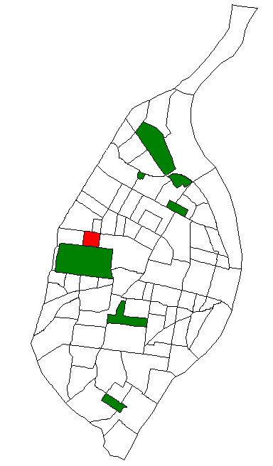 Map of St. Louis neighborhood #47